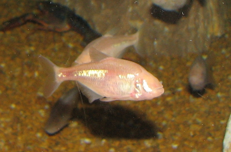 Mexican Blind Cavefish (Astyanax mexicanus) at Newport Aquarium